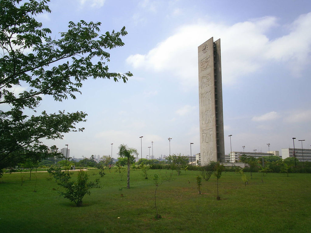 Picture of the Watch's Square at the Universitary City, in São Paulo, Brazil.